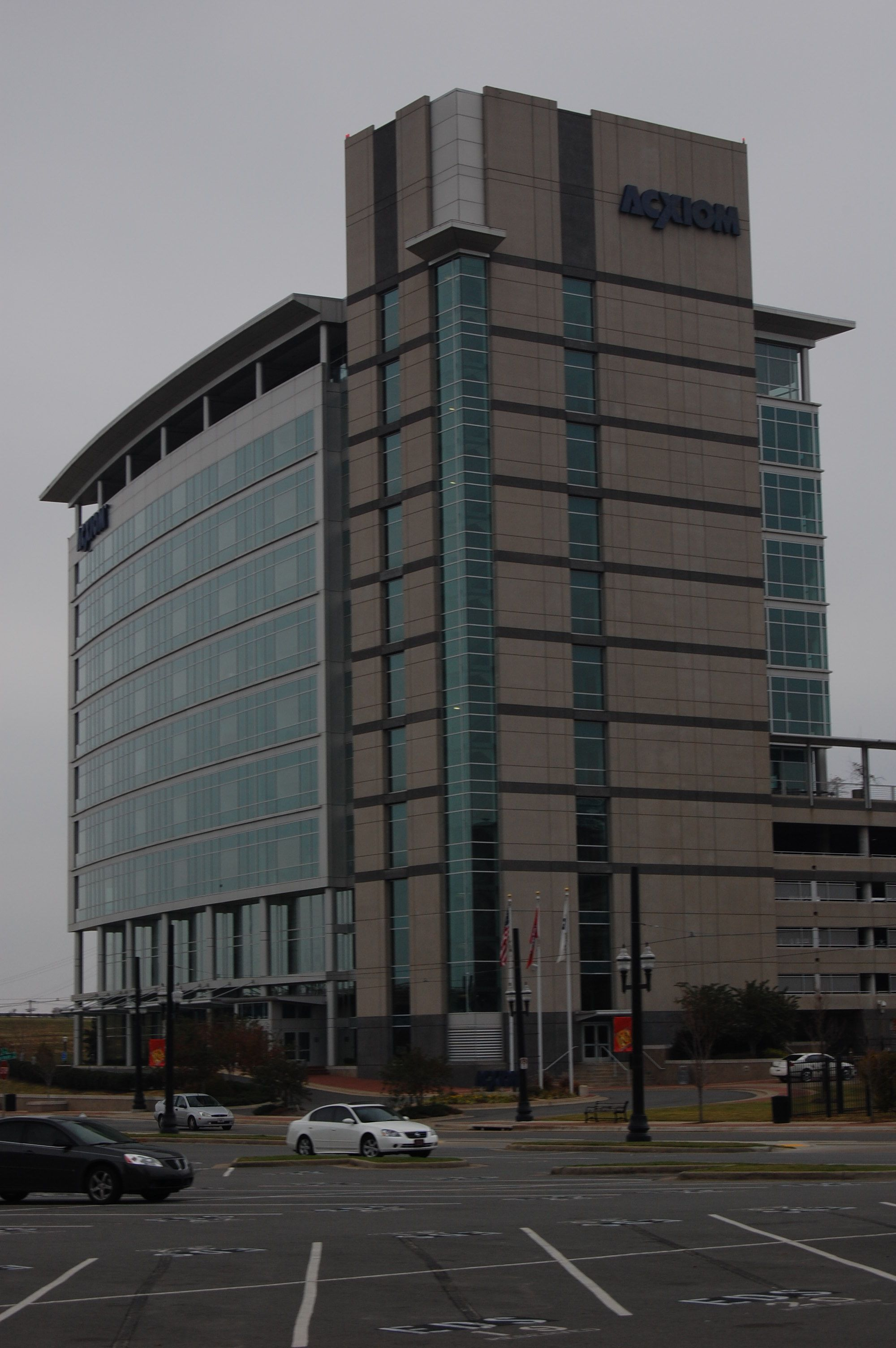 Acxiom Building, Downtown Little Rock, AR